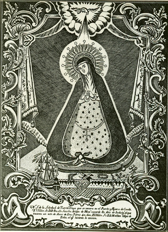 Our Lady of Solitude of Porta Vaga Estampa of the Tahanan ng mabuting pastol